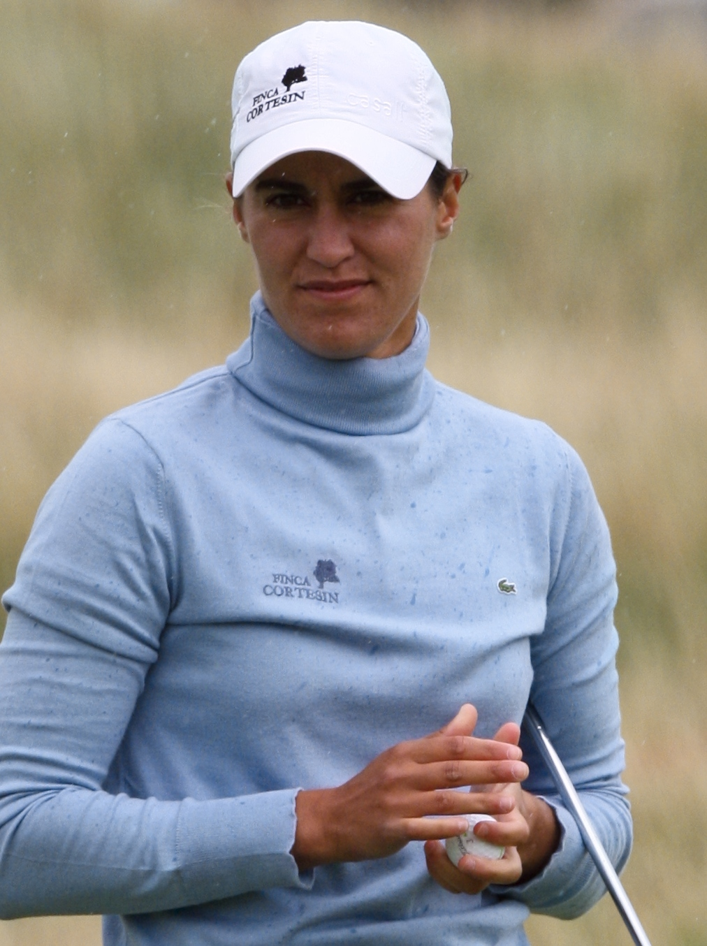 LYTHAM ST ANNES, UNITED KINGDOM - JULY 28: Tania Elósegui of Spain at the 15th green during pro-am before 2009 Ricoh Women's British Open held at Royal Lytham & St Annes on July 28, 2009 in Lytham St Annes, England. (Photo by Wojciech Migda)